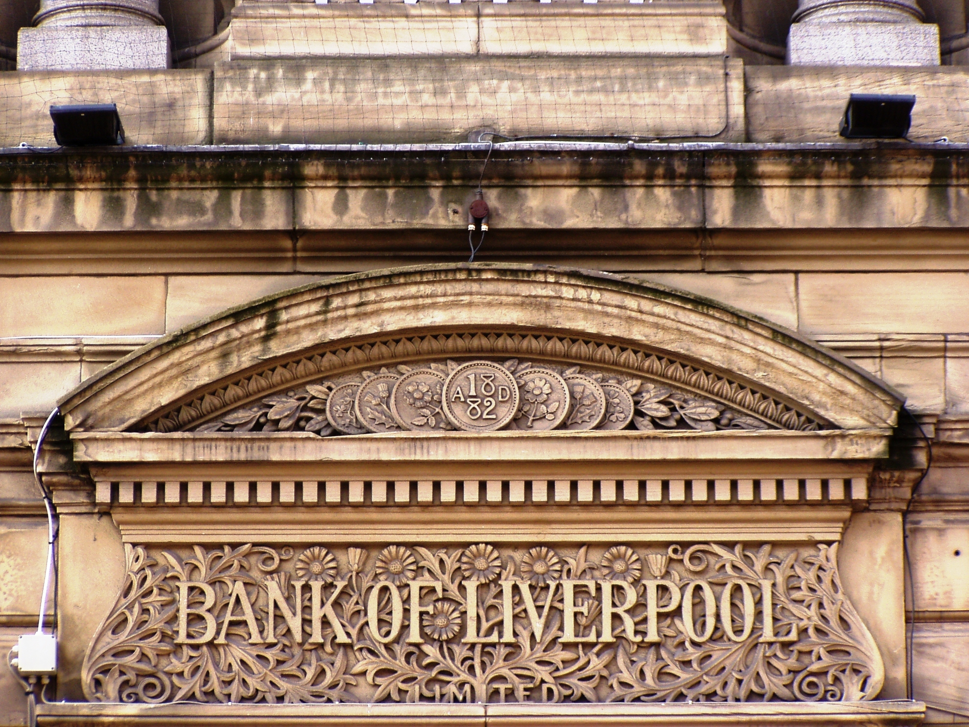 Writing above the former HQ of the Bank of Liverpool.